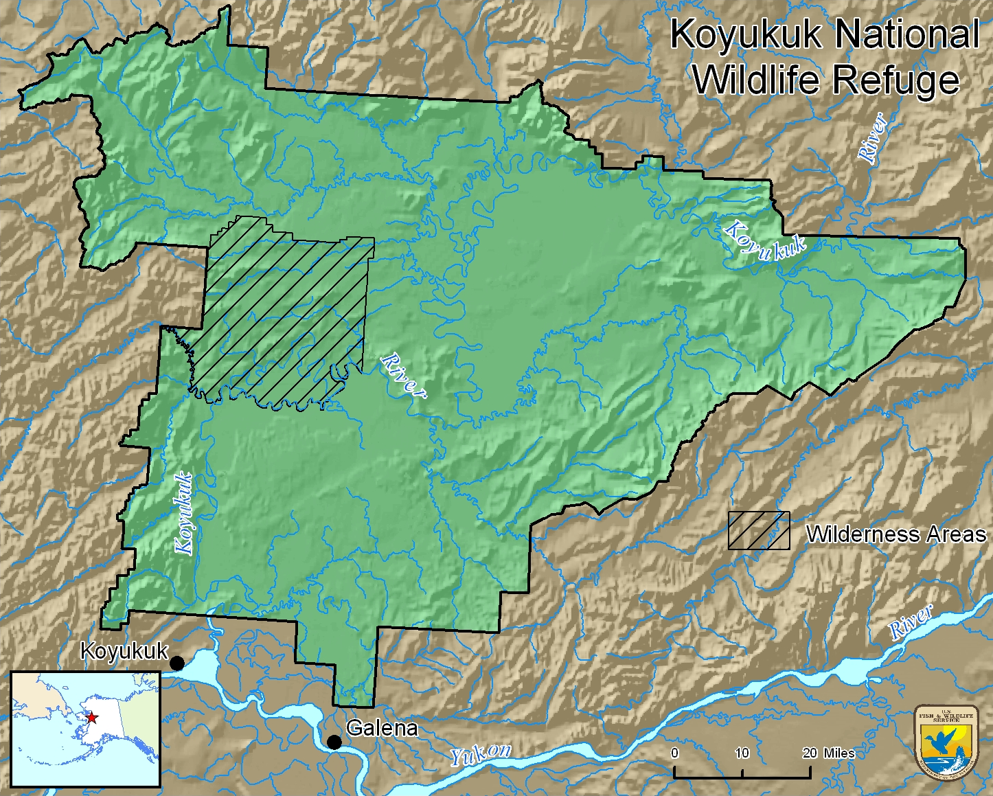 Map of Koyukuk National Wildlife Refuge